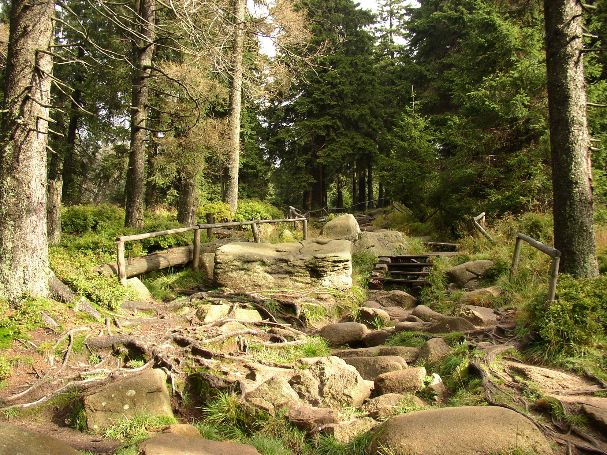 Hiking trail „Eckerlochstieg“ in the Harz National Park in Saxony-Anhalt, Germany